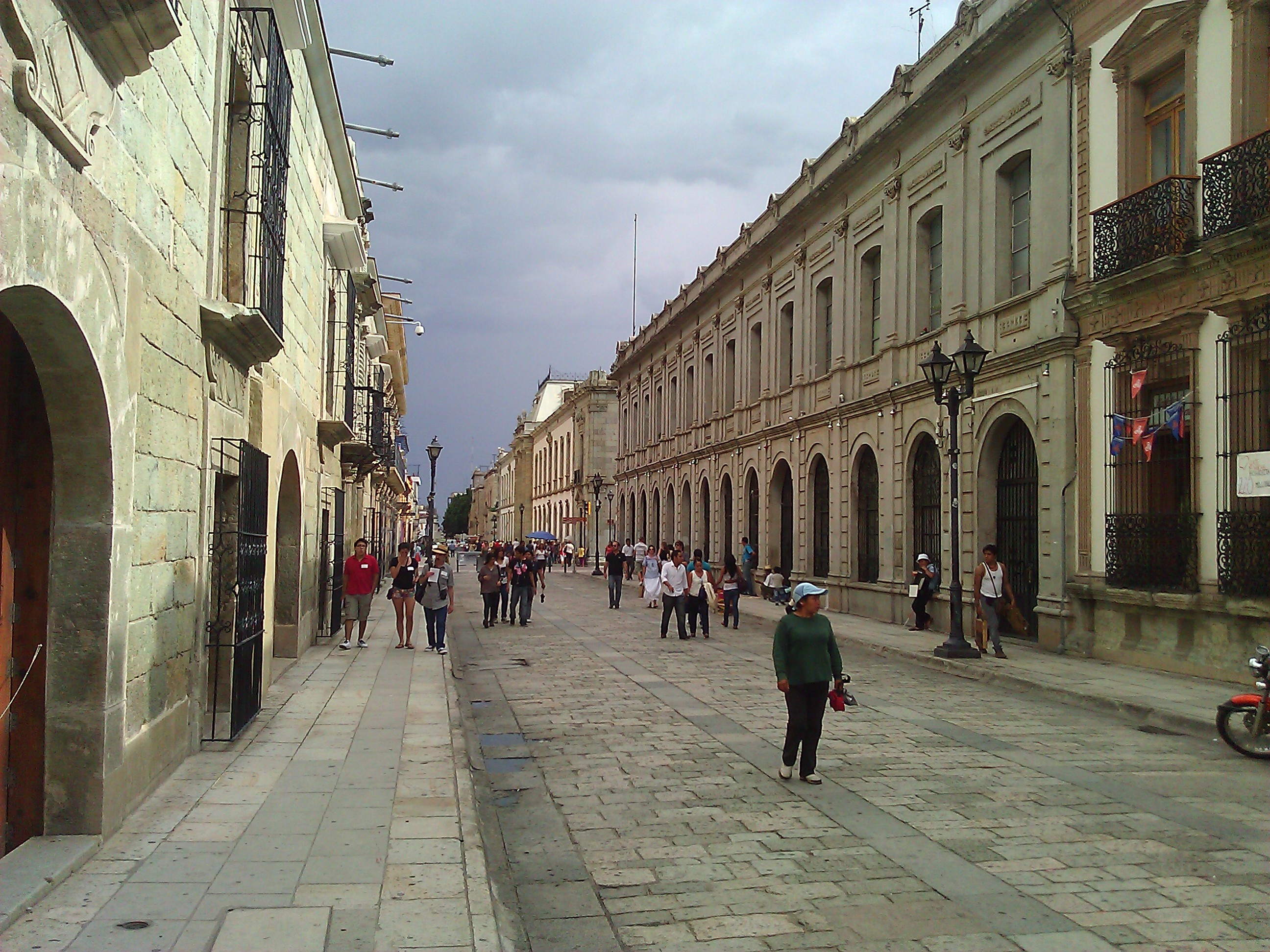 Oaxaca.